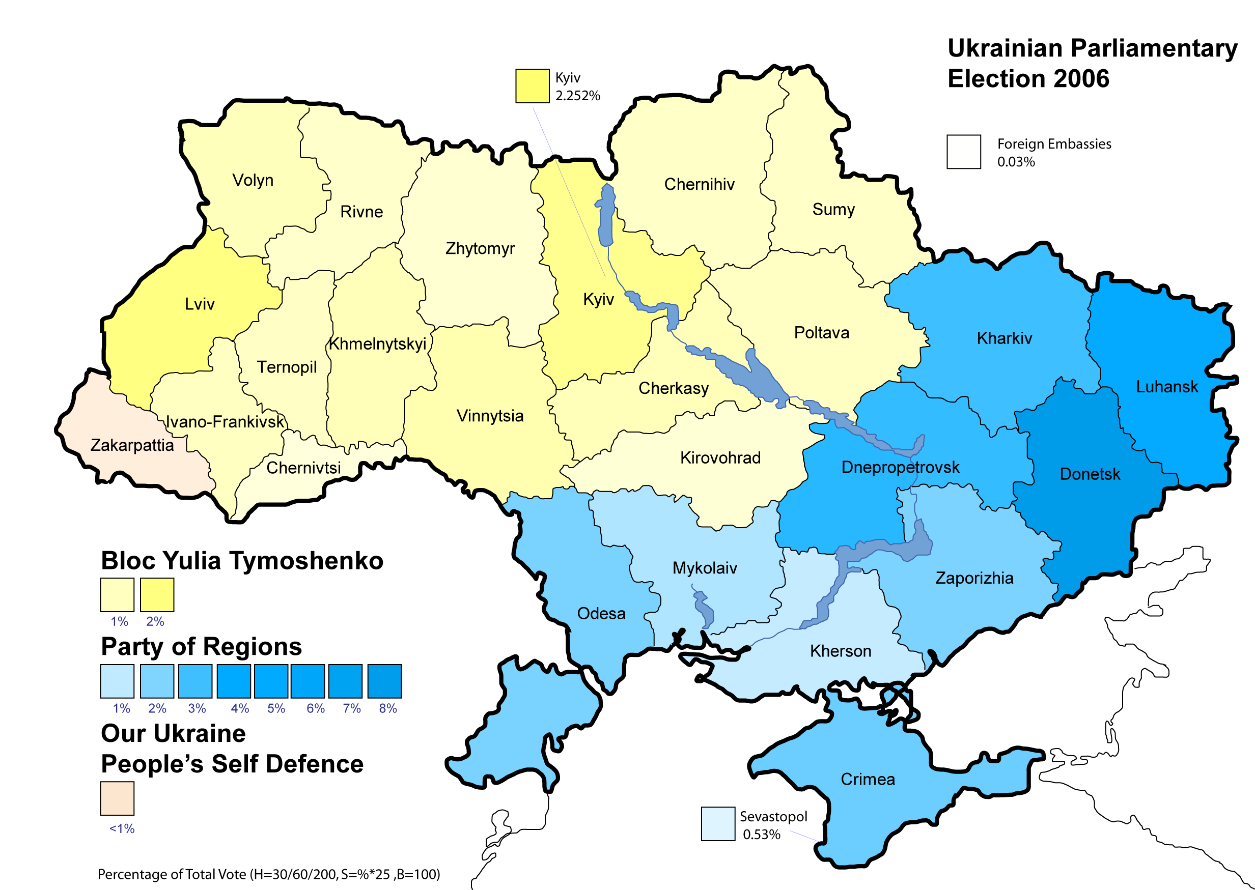 Ukrainian Parliamentary Elections 2006 -Highest Vote by Party per Region - percentage of total national vote (H=30/60/200, S=%*25, B=100)